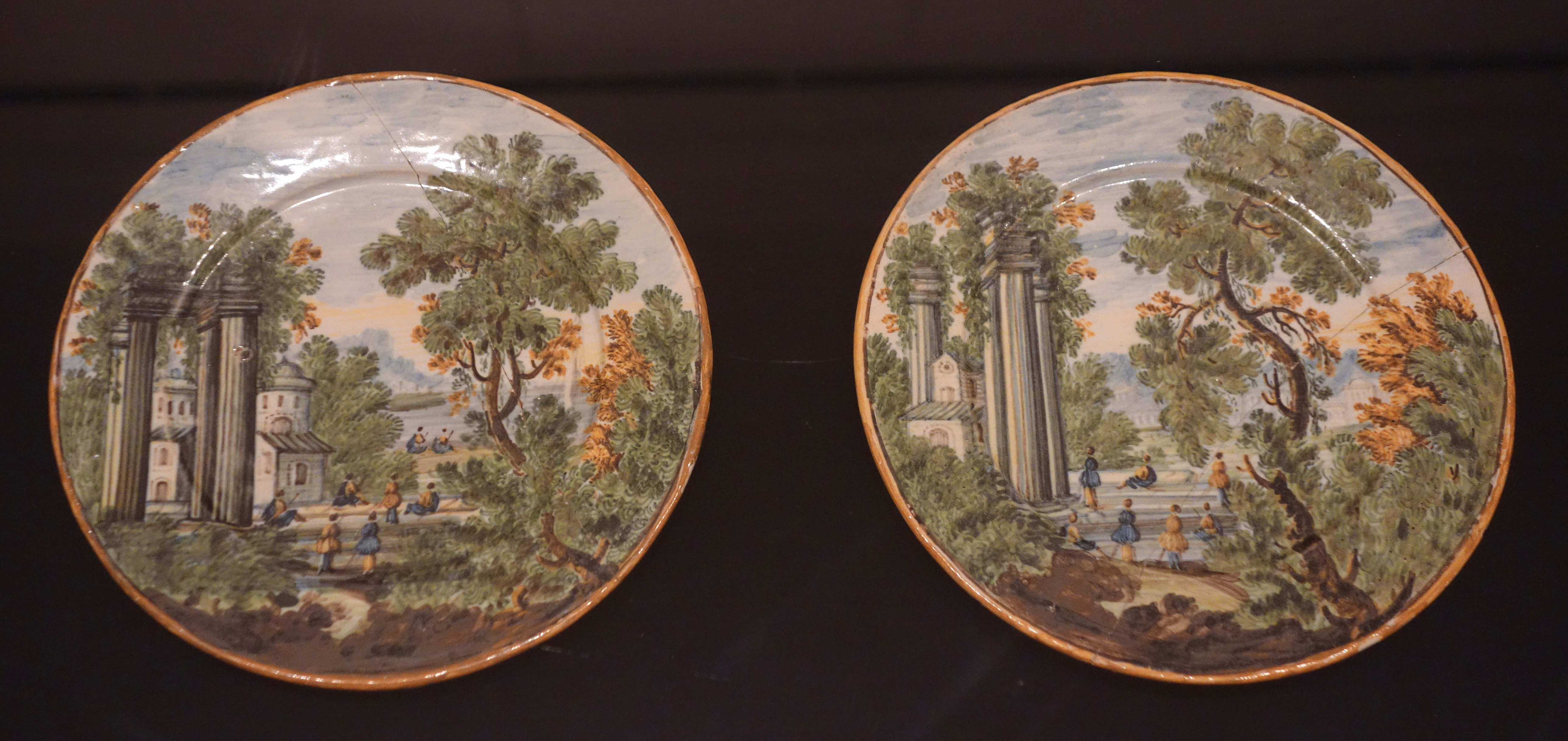 Exhibit in the Accademia Ligustica di Belle Arti, Genoa, Italy. This artwork is old enough so that it is in the public domain.